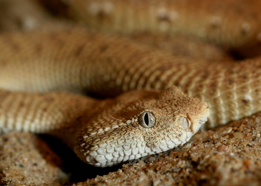 Leaf Nosed Viper (Eristicophis macmahonii)